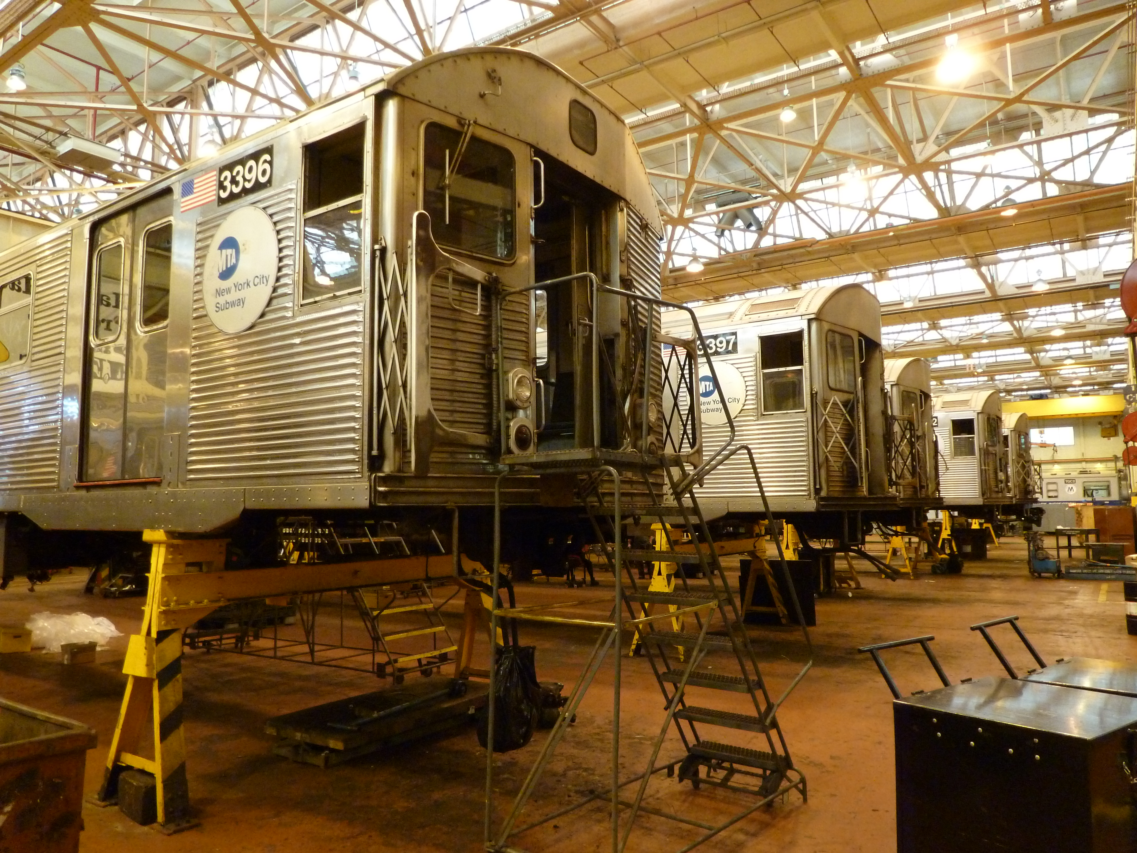 Subway trains in the Coney Island Complex